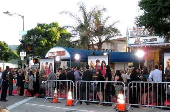 Bandslam premiere night at the Fox Theater in Westwood Village, Los Angeles.